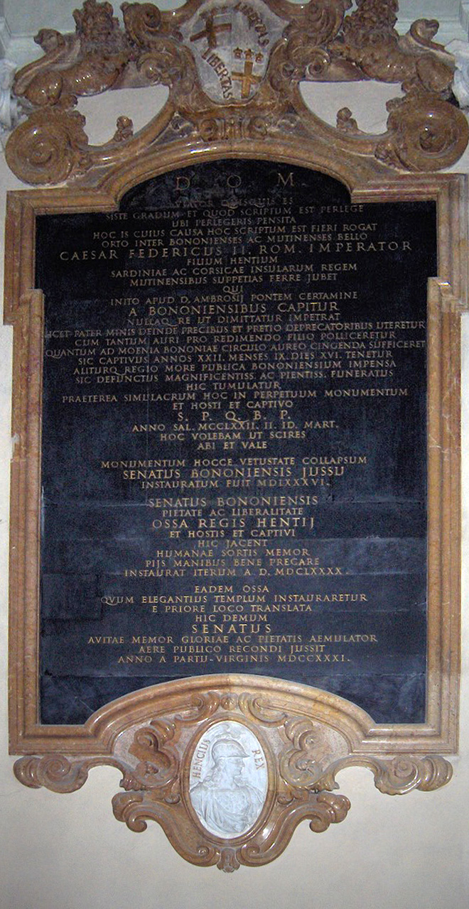 Tombstone of King Enzo (son of Frederick II) by 1731, by Giuseppe Maria Mazza (1653-1741); Chapel of the Holy Cross, left transept; Basilica of Saint Dominic, Bologna, Italy